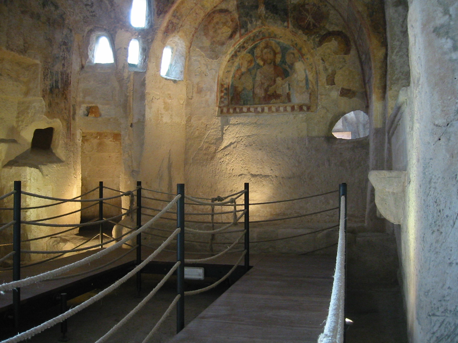 Matera, Italy